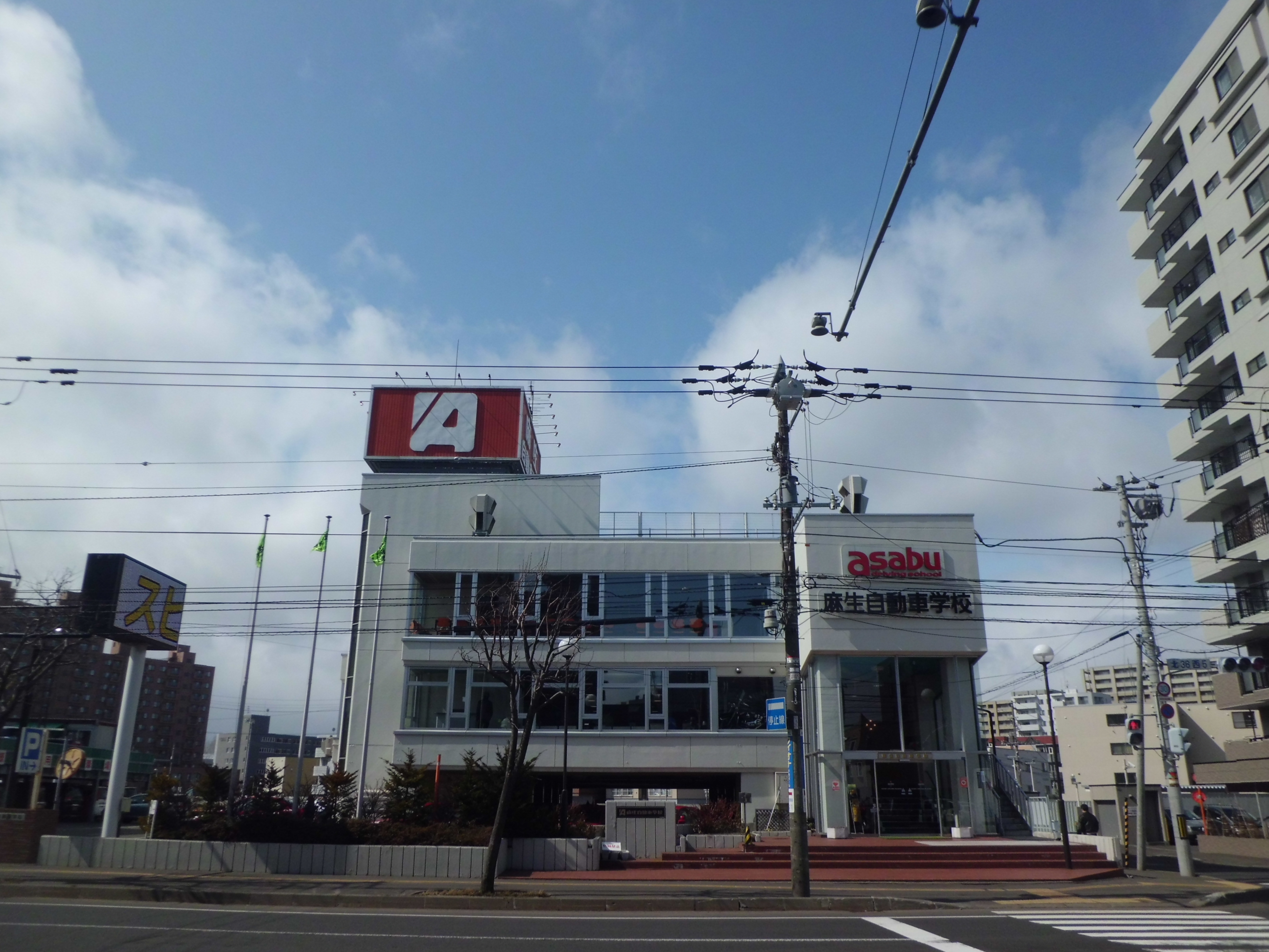 Asabu Driver's School